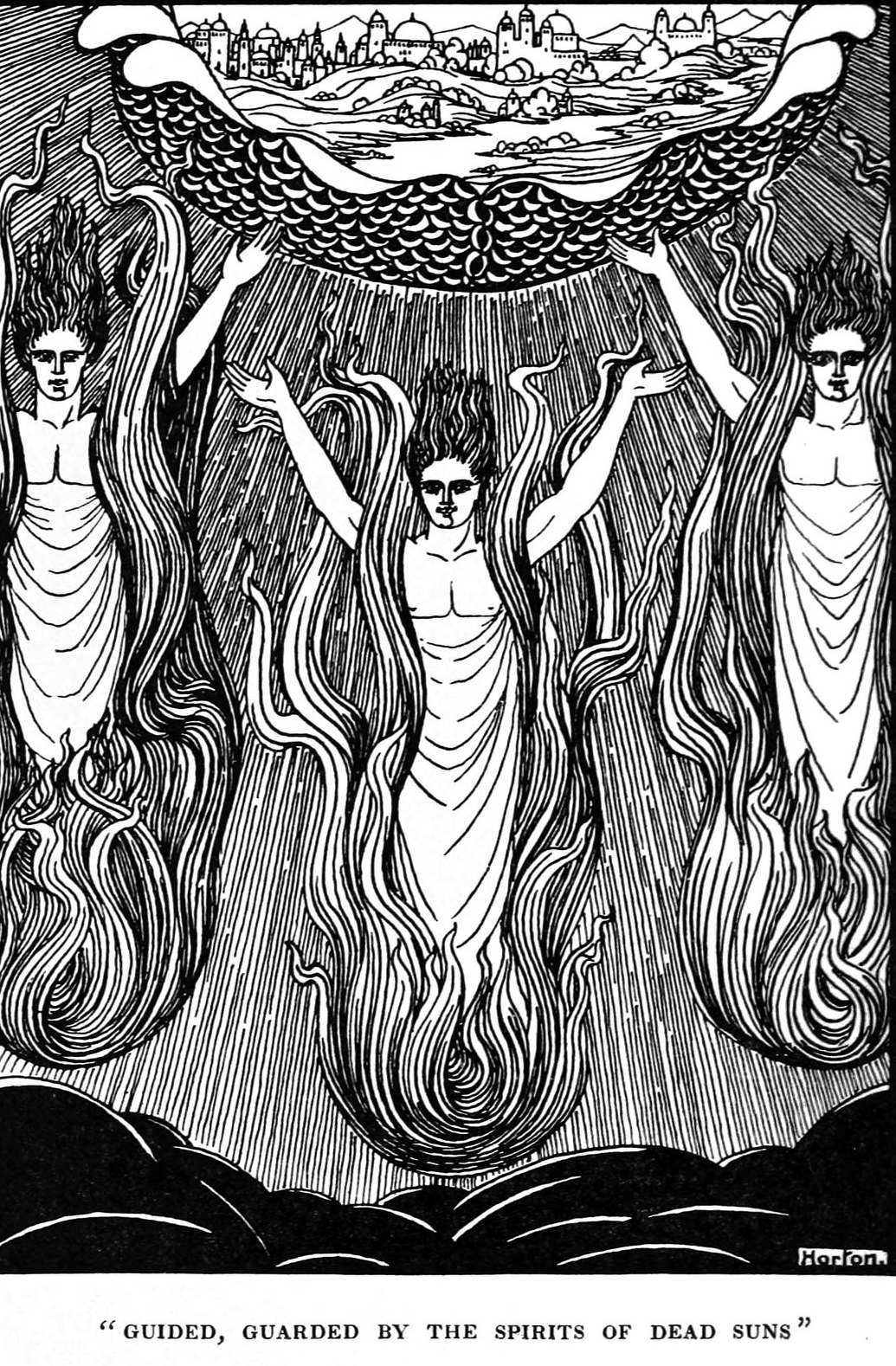 The Mahatma and the Hare : a Dream Story (1911), by H. Rider Haggard. Illustrated by William Thomas Horton : Guided, guarded by the spirits of dead suns.